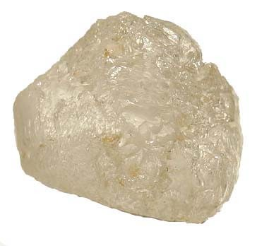 Pollucite Locality: Mogok, Pyin Oo Lwin District, Mandalay Division, Burma (Myanmar) (Locality at ) 1.3 x 1.2 x 1.0 cm